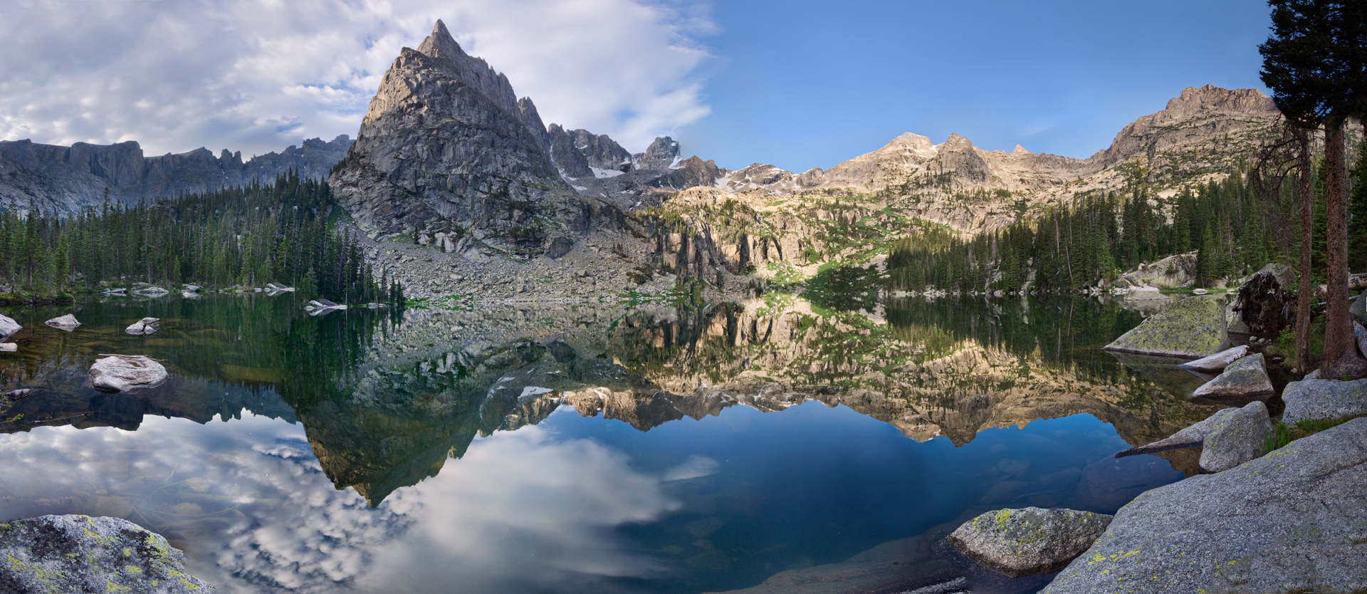 Lone Eagle Peak above Crater Lake